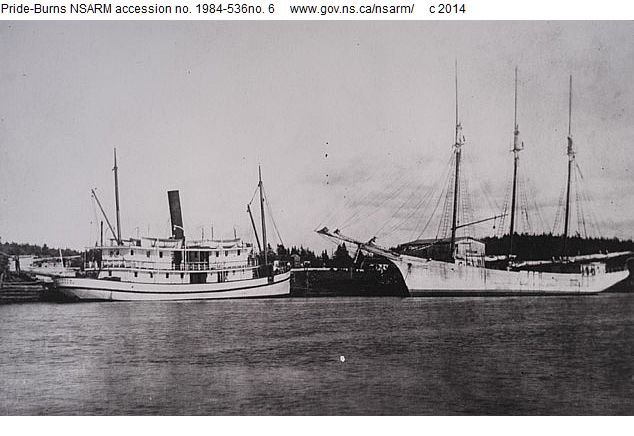 211-ton steamship Dufferin and a three-masted schooner at Anderson's wharf, Sherbrooke, Nova Scotia in 1907